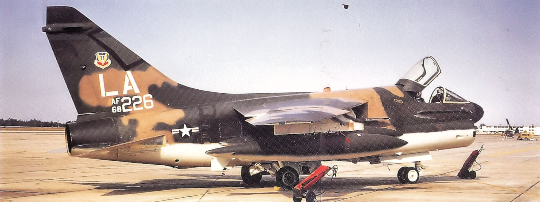 A-7D of the 310th Tactical Fighter Training Squadron, May 1971